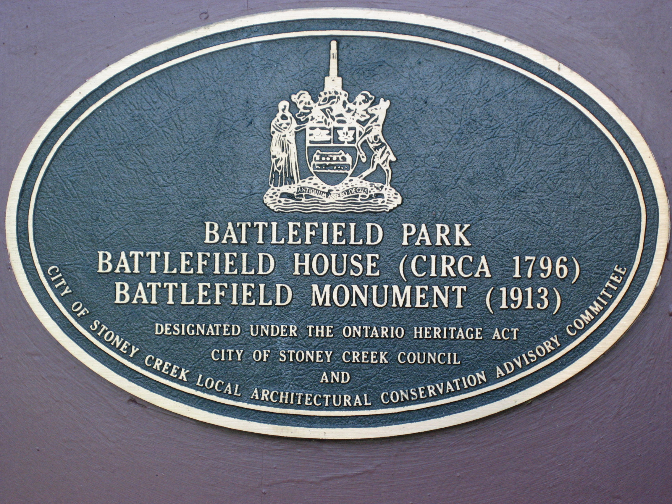 Battlefield House, Stoney Creek, (Plaque), Hamilton, Canada.